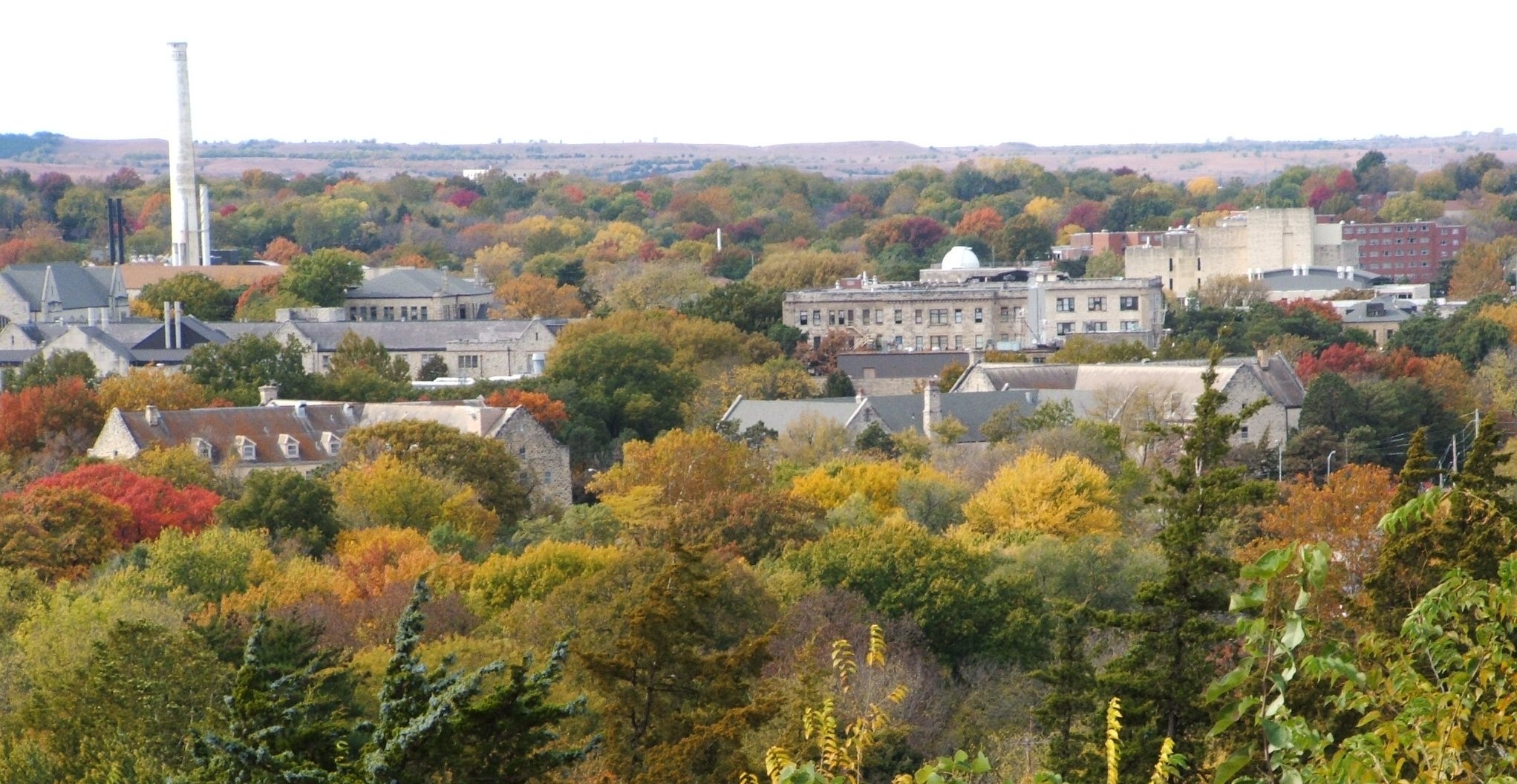 Kansas State University Campus in Manhattan, Kansas, USA. Taken in October, 2005 modified with the GIMP.